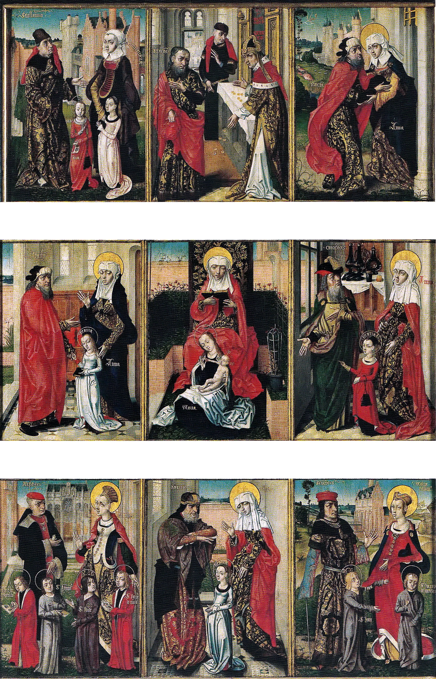 Life and family of St Anne, by the Master of the View of St Gudula (Brussels, ca. 1475-1500). Collection of Musée d'histoire de la médecine, Paris. The central panel depicts nine scenes from the lives of Saint Anne and her ancestors.